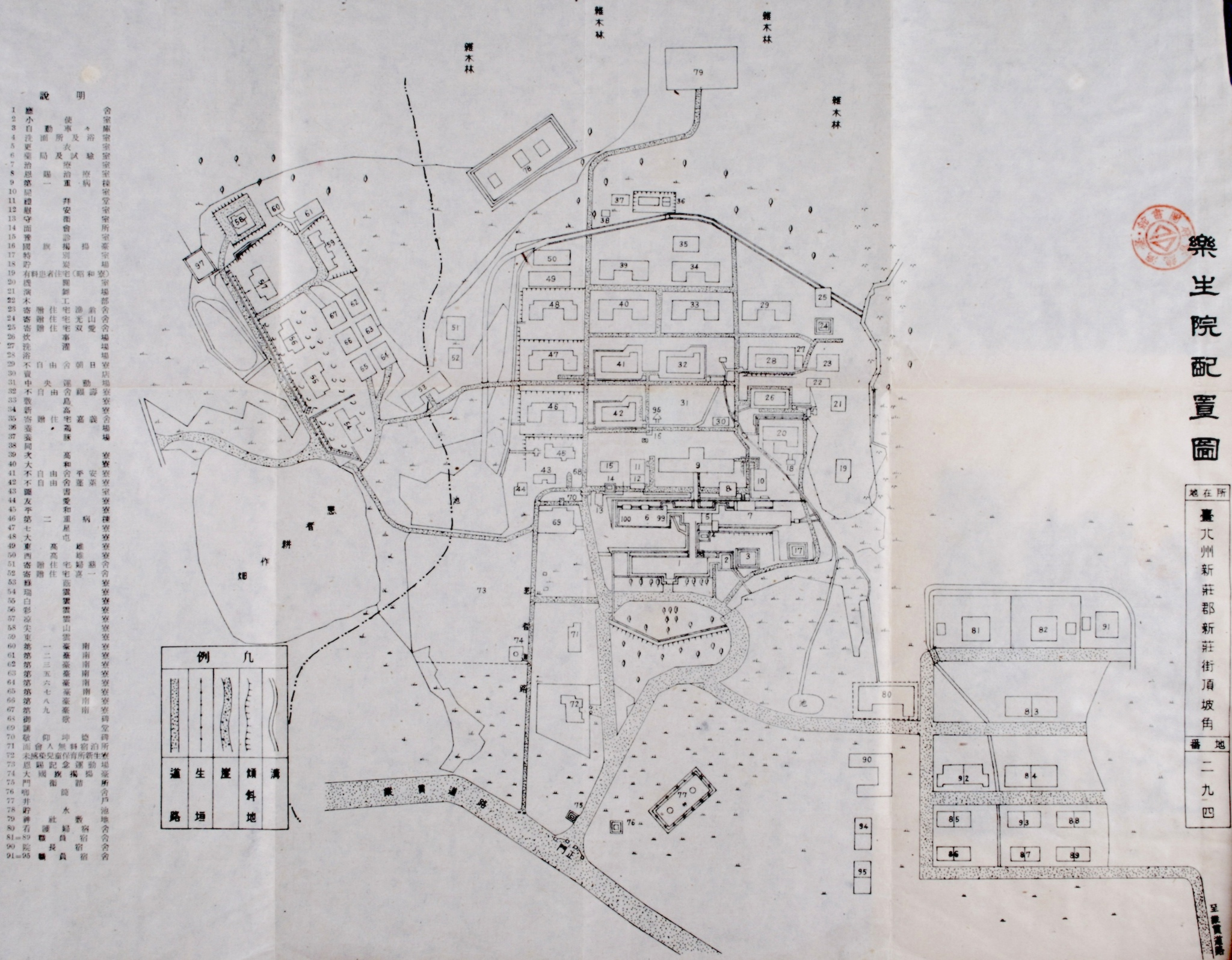 Map of Rakuseiin (1940)